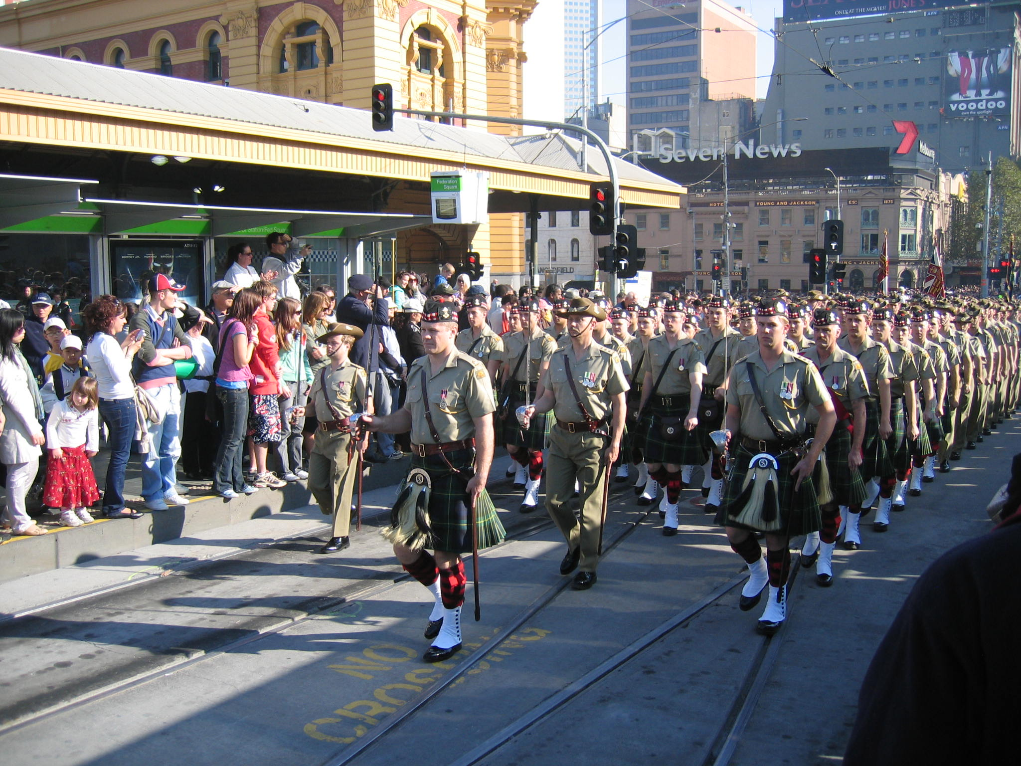 5th/6th Battalion, Royal Victoria Regiment marching down Swanston Street past Flinders Street Station, as part of the 2008 ANZAC Day Parade in Melbourne.